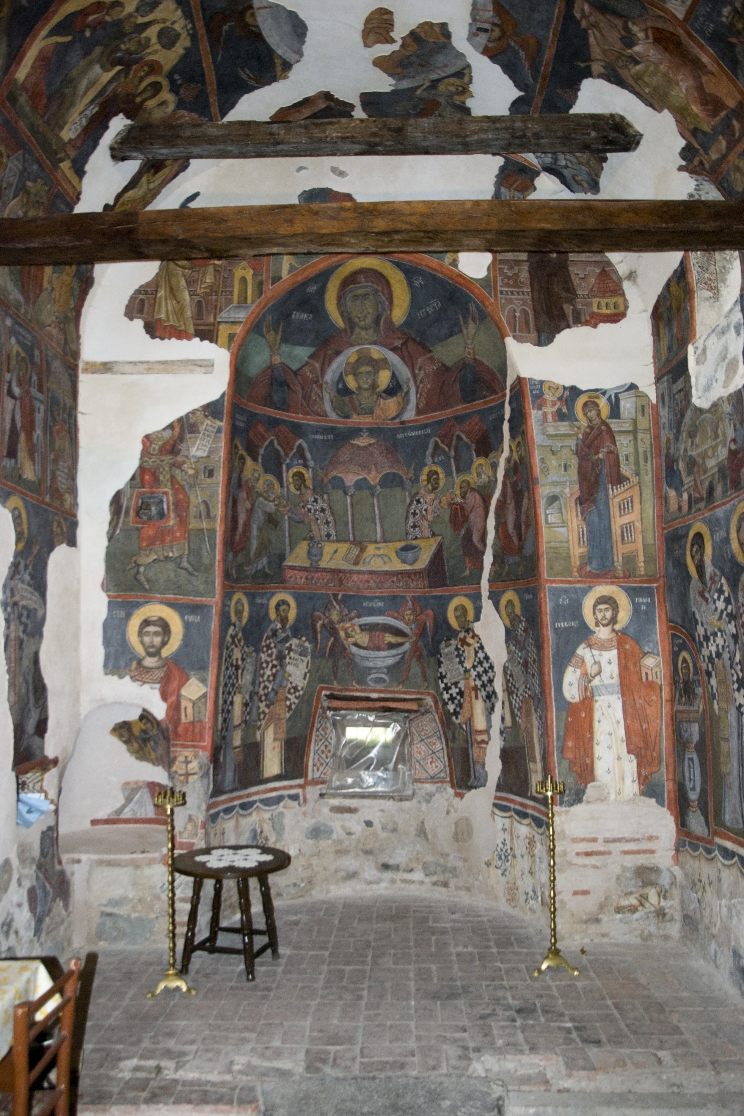 Inside the south part of the church of the Dragalevtsi Monastery near Sofia, Bulgaria. Looking east